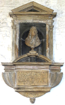 Mural monument of Admiral Sir John Berry (1635-1689), St Dunstan's Church, Stepney, London